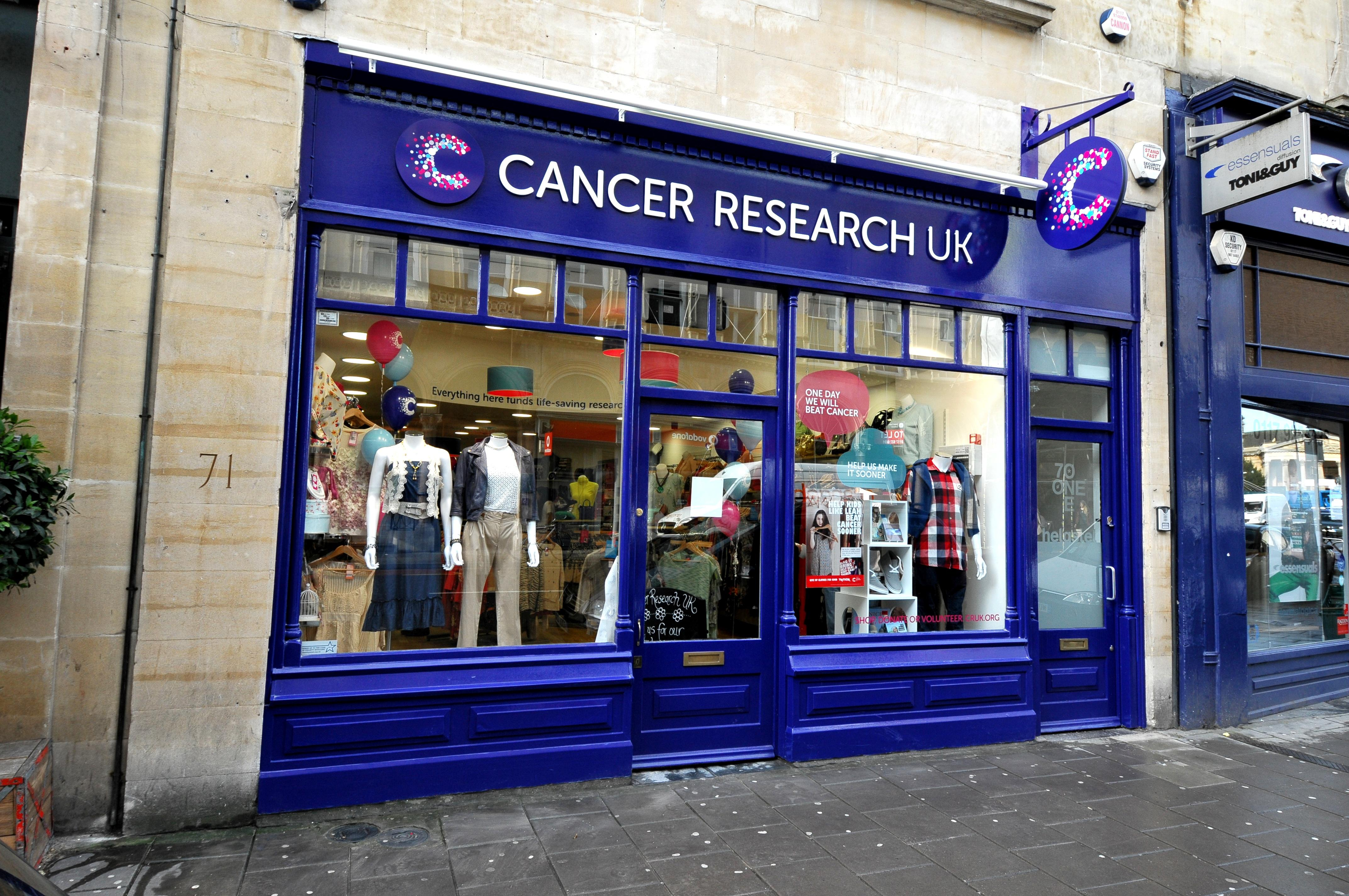 Cancer Research UK, Bristol Shop opening.CRUK.Photographs By: Sean DillowThe Big Cheese Photography. 07990 522727© It's Your Day LtdThis image has been released as part of an open knowledge project by Cancer Research UK. If re-used, attribute to Cancer Research UK / Wikimedia Commons This work is free and may be used by anyone for any purpose. If you wish to use this content, you do not need to request permission as long as you follow any licensing requirements mentioned on this page.